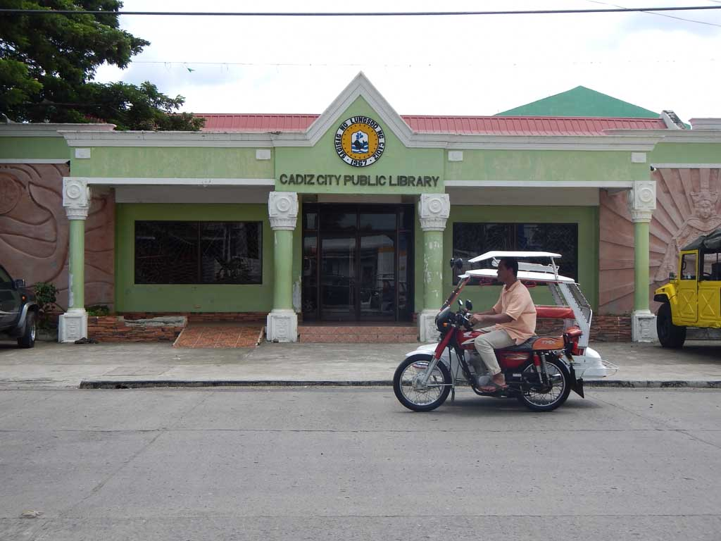 This is the front view of the Cadiz City Public Library from Cabahug St., Cadiz City, Negros Occidental, Philippines